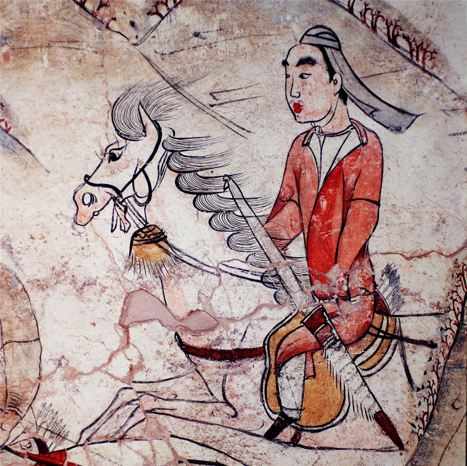 Mural from a tomb of Northern Qi Dynasty in Jiuyuangang, Xinzhou